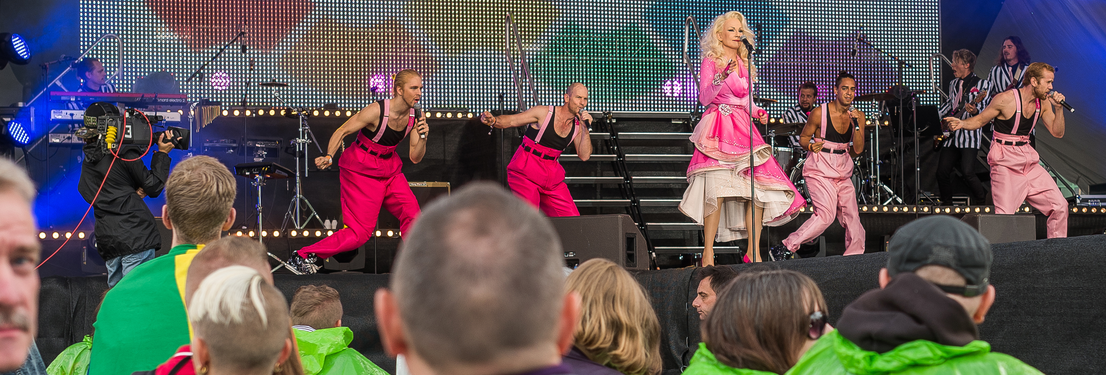 Diamond Dogz at Stockholm Pride July 2015